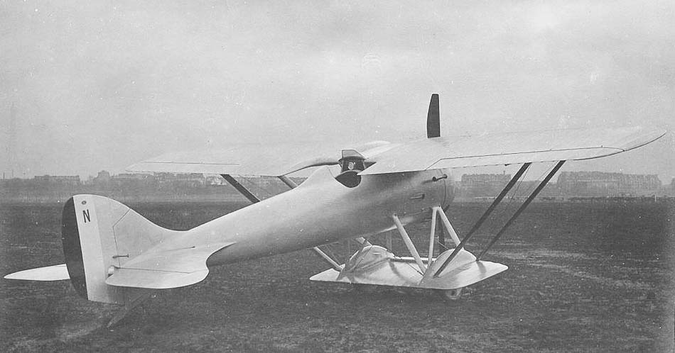 Photo of Nieuport 31 fighter aircraft rear samf4u.jpg